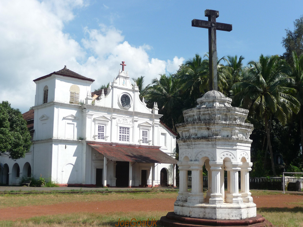 Rachol Church new picture